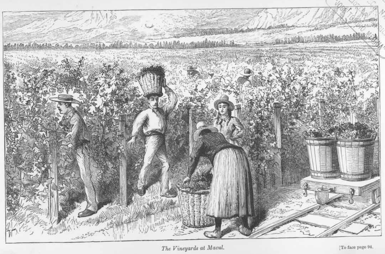 A Visit to Chile and the Nitrate Fields of Tarapaca, 1890